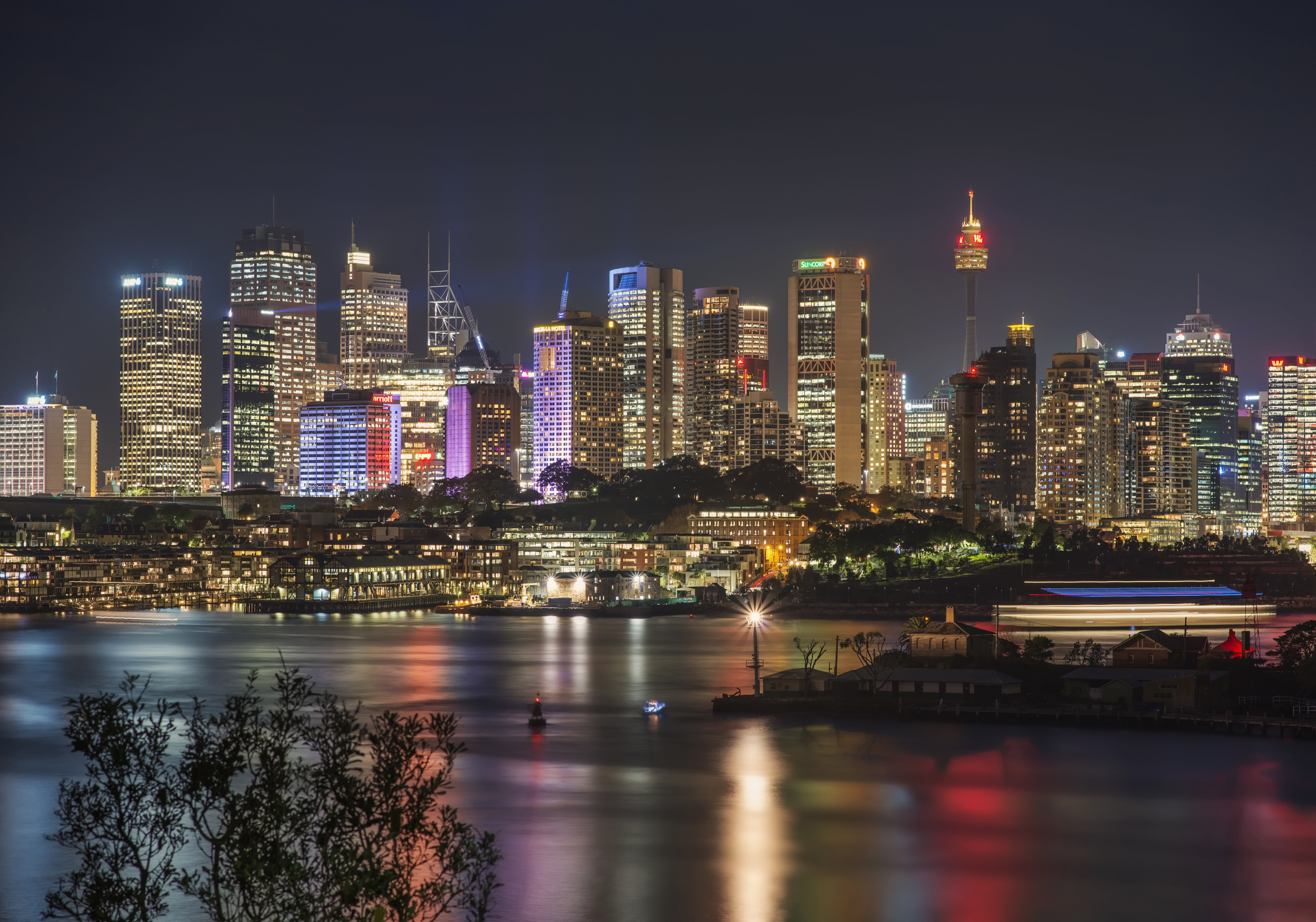 Sydney City Lights photo taken from Waverton Balls head reserve